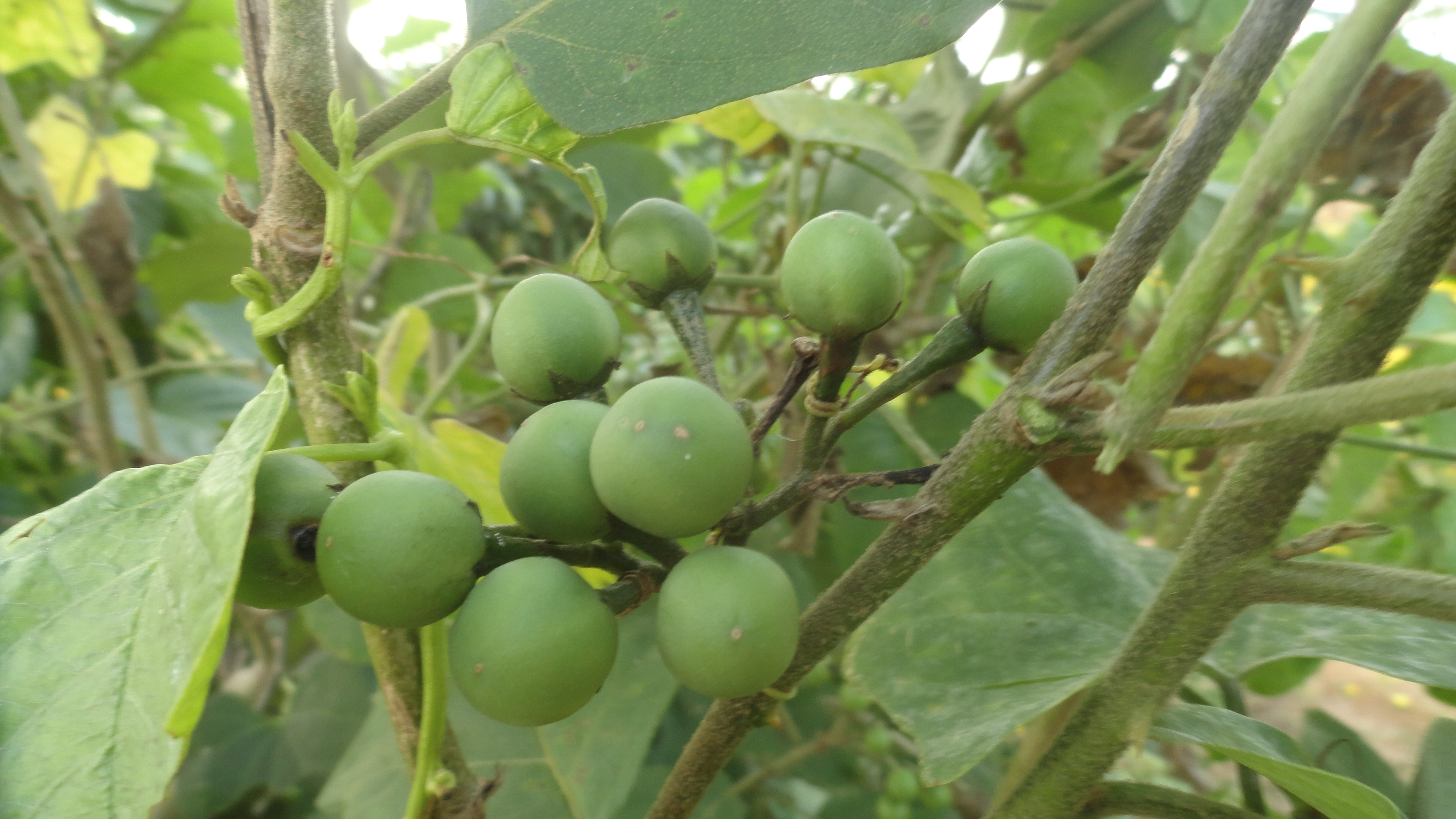 Usti kaayalu (Telugu) one Type of vegetable.Near kalluru of CTR Dist a.p.